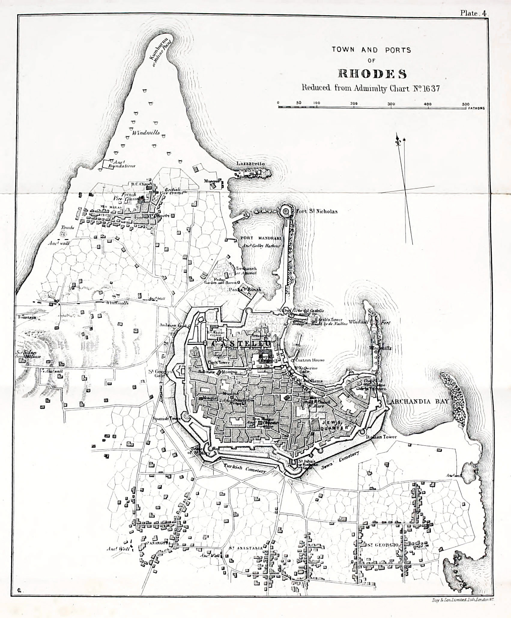 Plan of Town of Rhodes